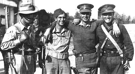 British soldiers of the Special Night Squads (Mandatory Palestine, 1938-39). Members of the Special Night Squads in British Army uniform, Palestine, c1938-1939. Brigadier General Orde Wingate (1903-1944) organised the Special Night Squads - armed groups formed of British volunteers and men from the Haganah